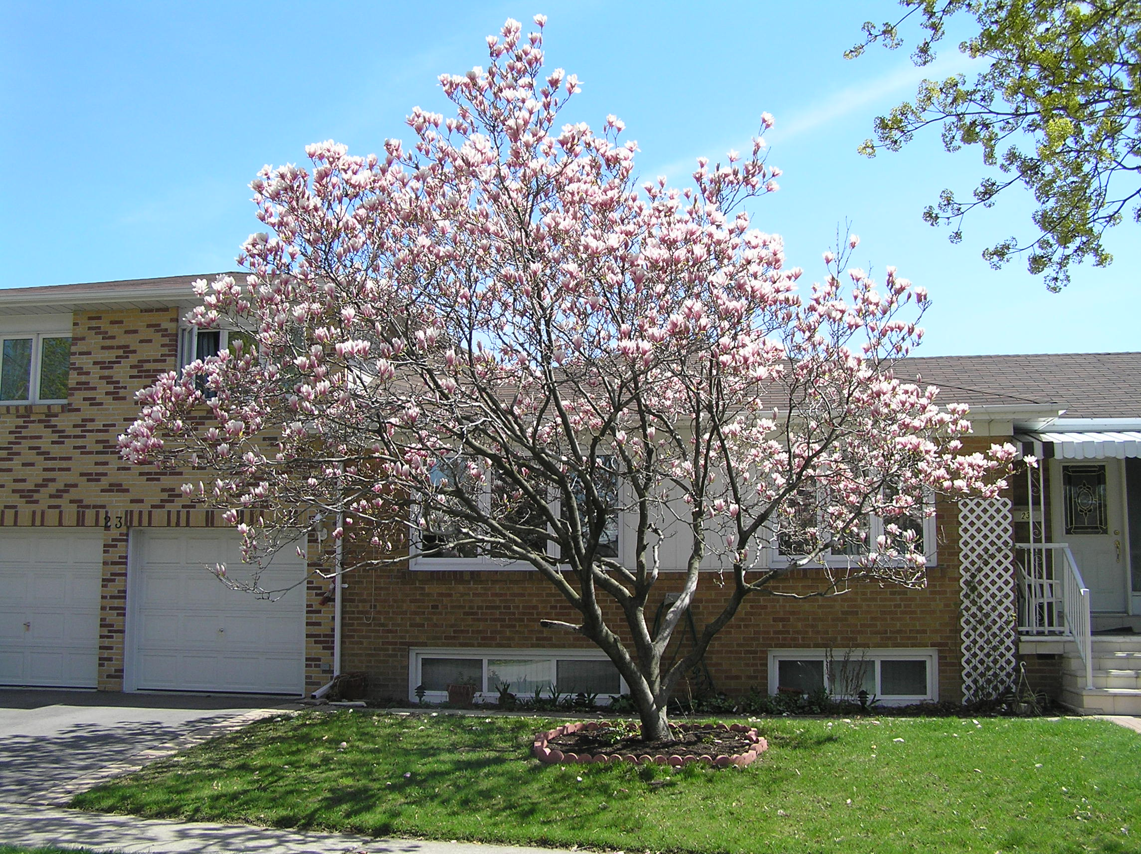 Saucer magnolia tree in full bloom, picture taken in Etobicoke, Ontario, Canada by Yannick Trottier, 2006.